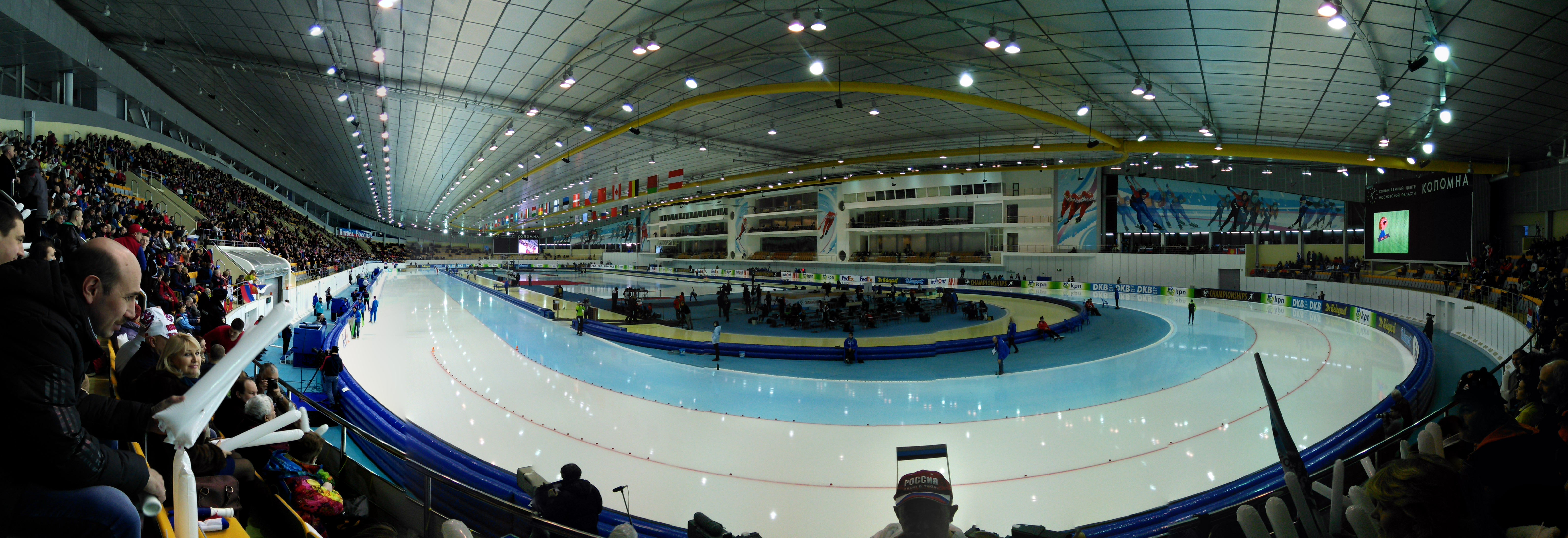 2016 World Single Distance Speed Skating Championships